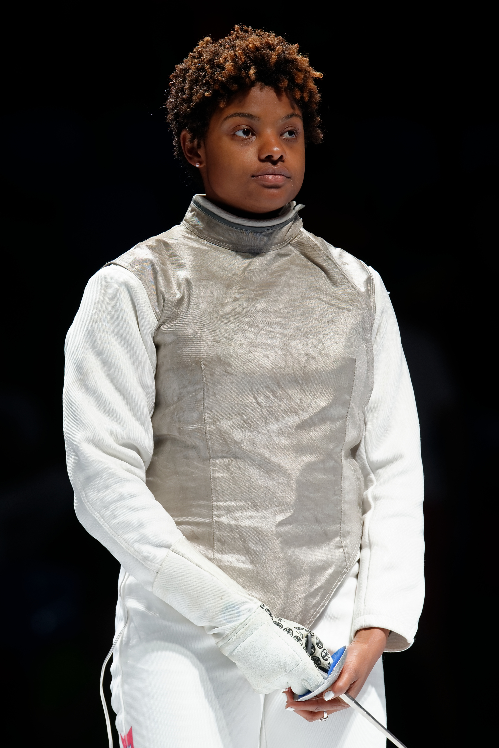 The United States' Nzingha Prescod at the semifinals of the women's foil event at the 2015 World Fencing Championships on 16 July 2014 at the Olympic Stadium in Moscow.